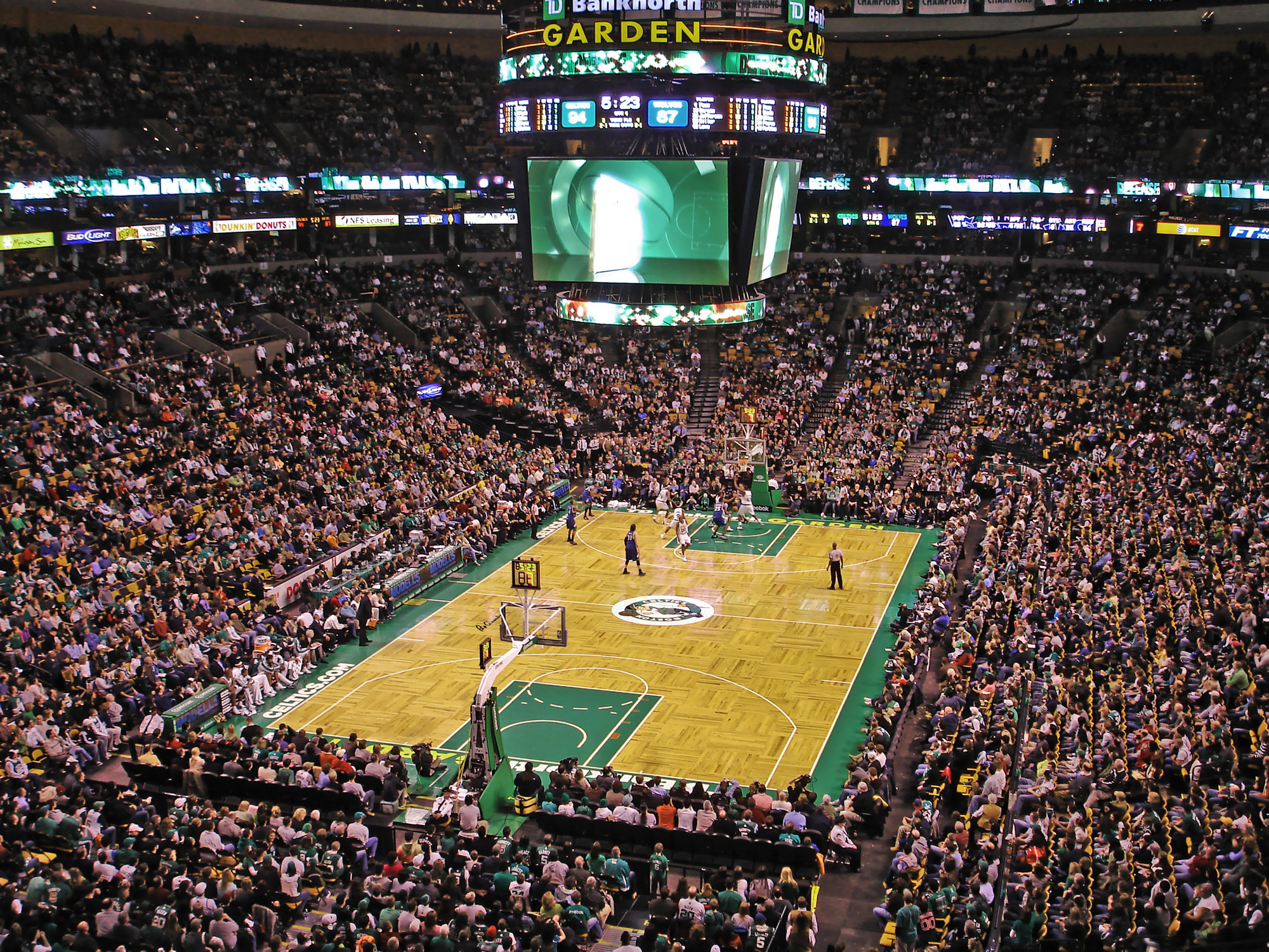 Boston Celtics vs. the Minnesota Timberwolves. Note the new scoreboard and see-through shot clocks.